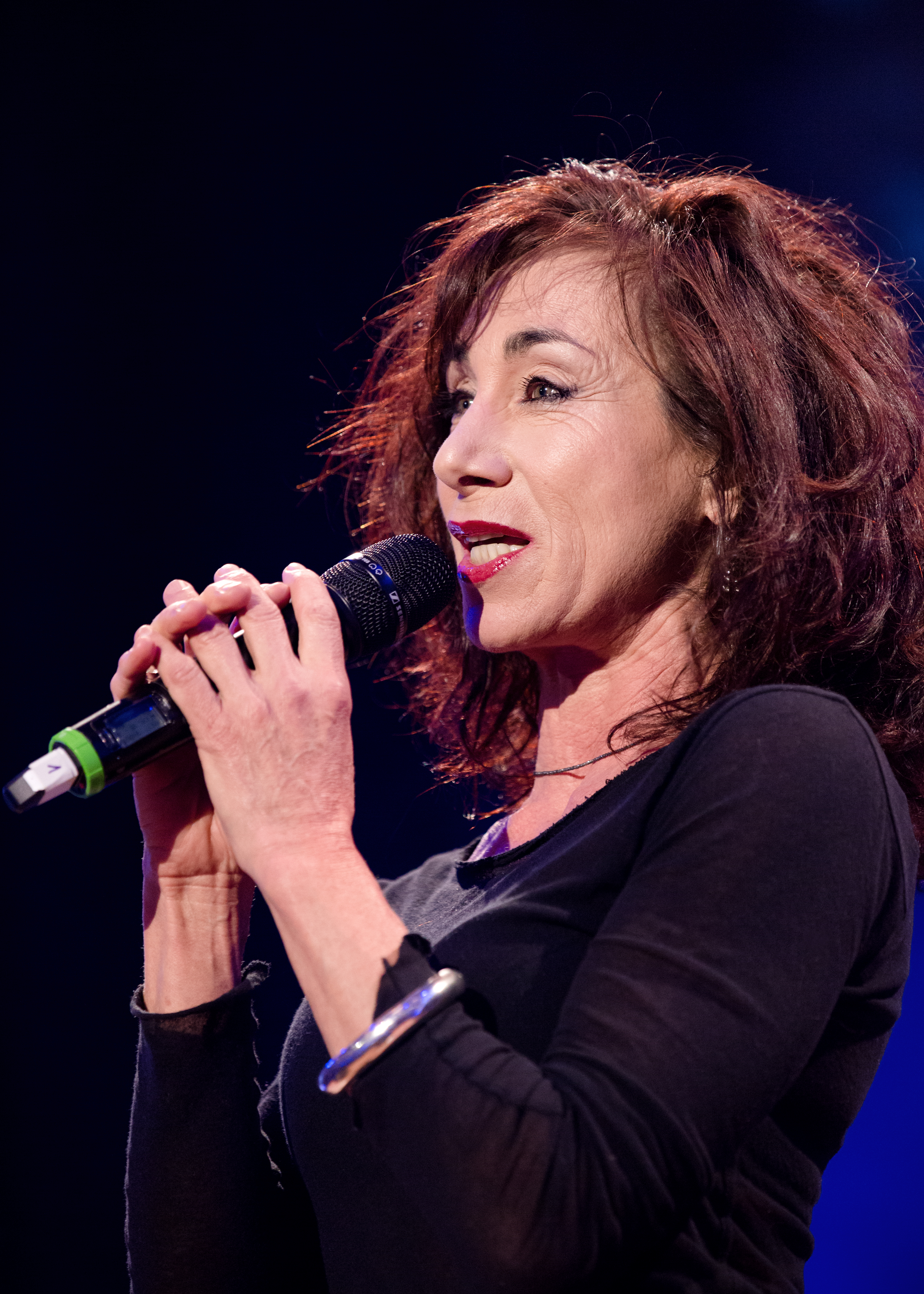 Andrea Eckert at "Stimmen für Van der Bellen" ("Voices for Van der Bellen"), an event by artists supporting him at the Austrian presidential election 2016 (Konzerthaus, Vienna, Austria).